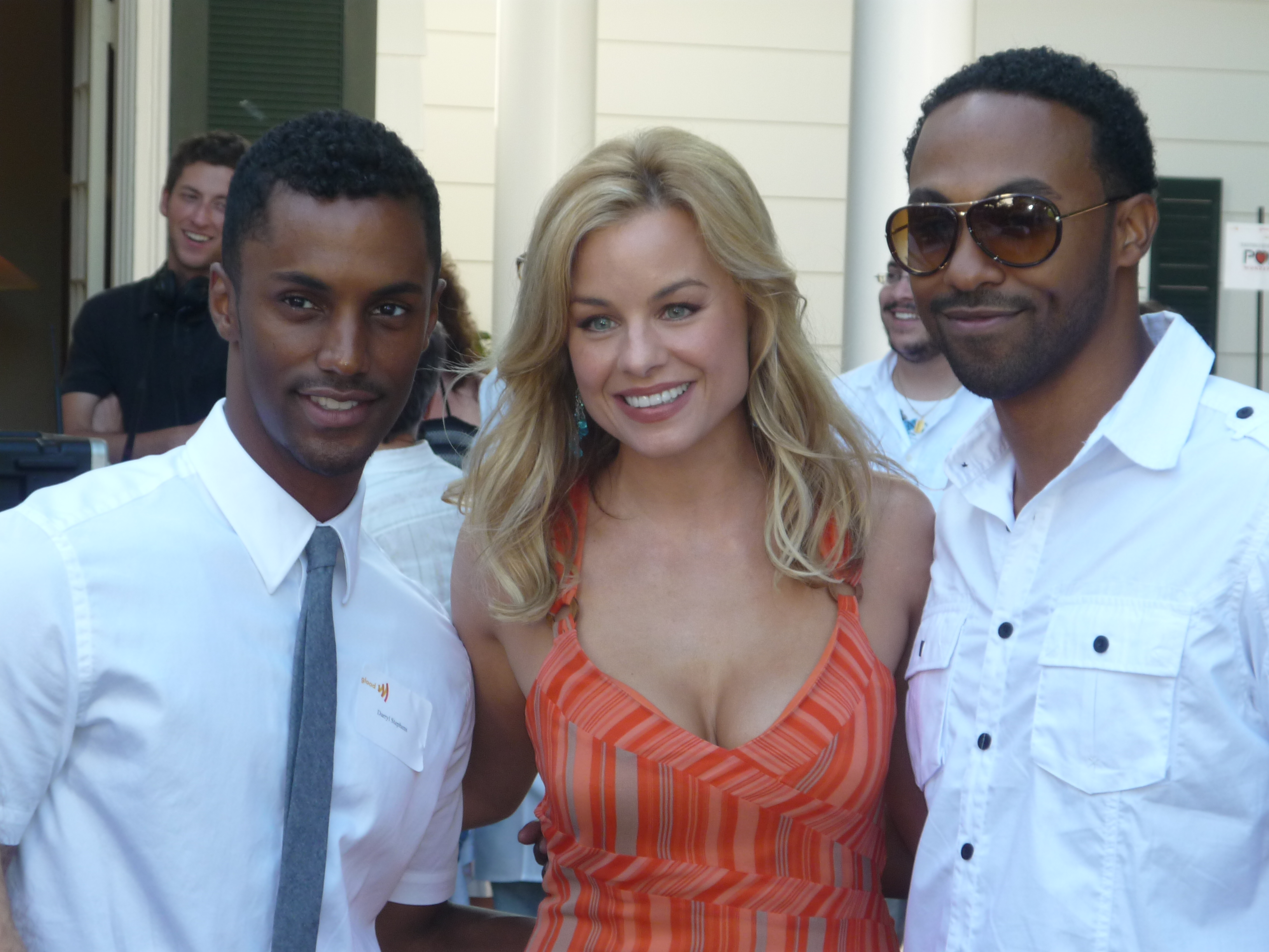 Jessica Collins 2010